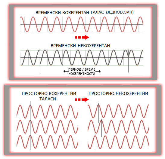 КОХЕРЕНТНОСТ